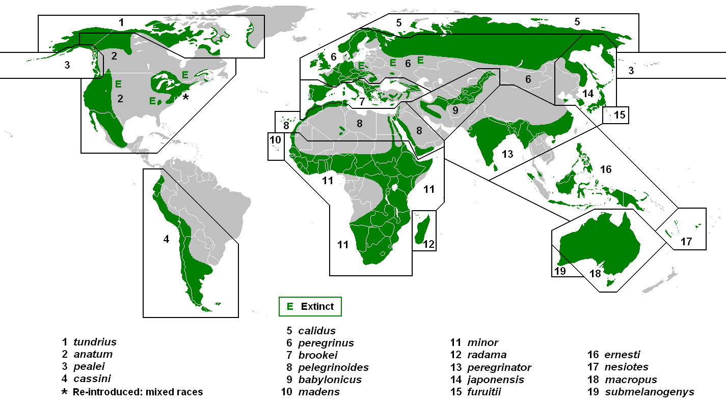 Subspecies map of Falco peregrinus (breeding distributions only)